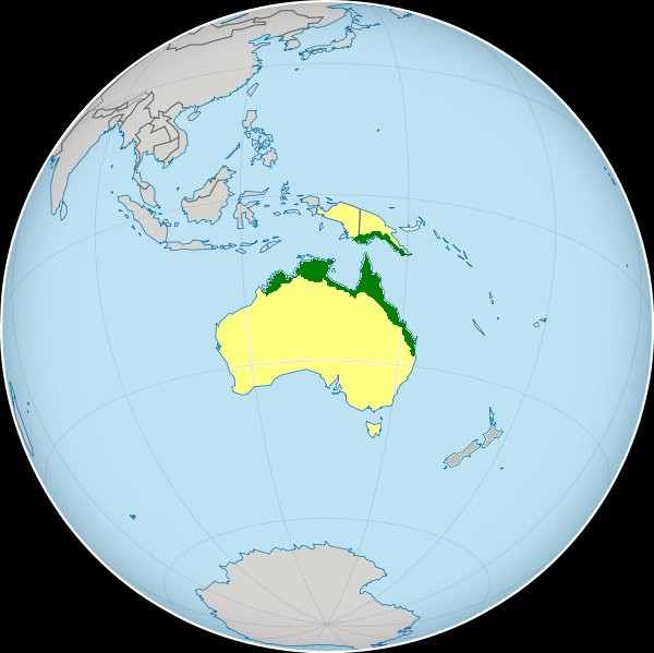 The geographical distribution of Oxyuranus scutellatus.